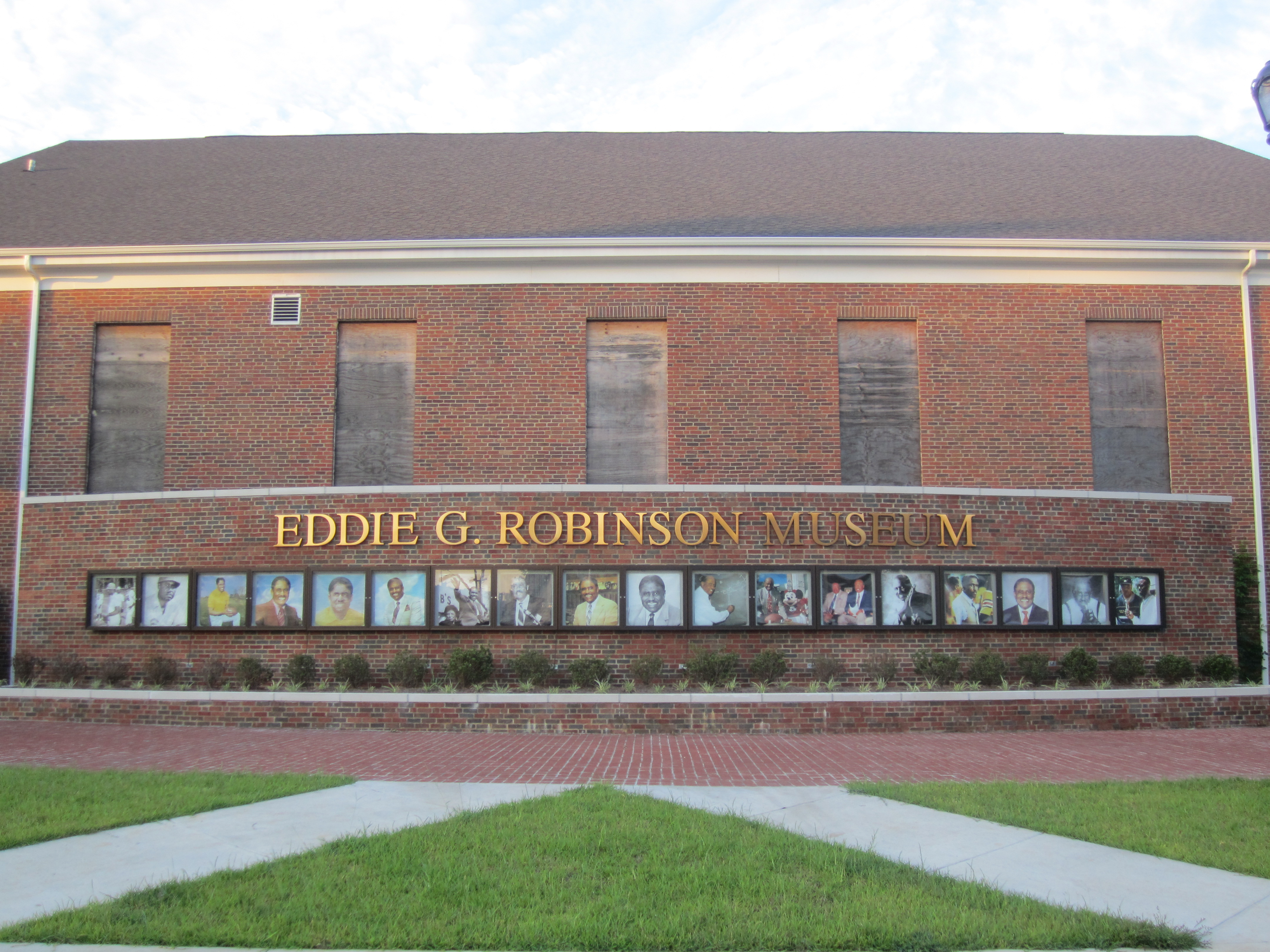 I took photo with Canon camera in Grambling, LA.